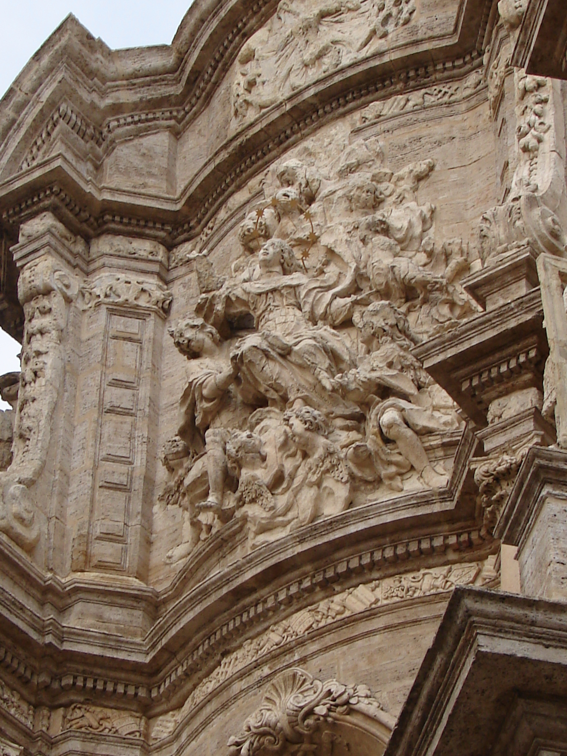 Front of the Cathedral of Valencia.